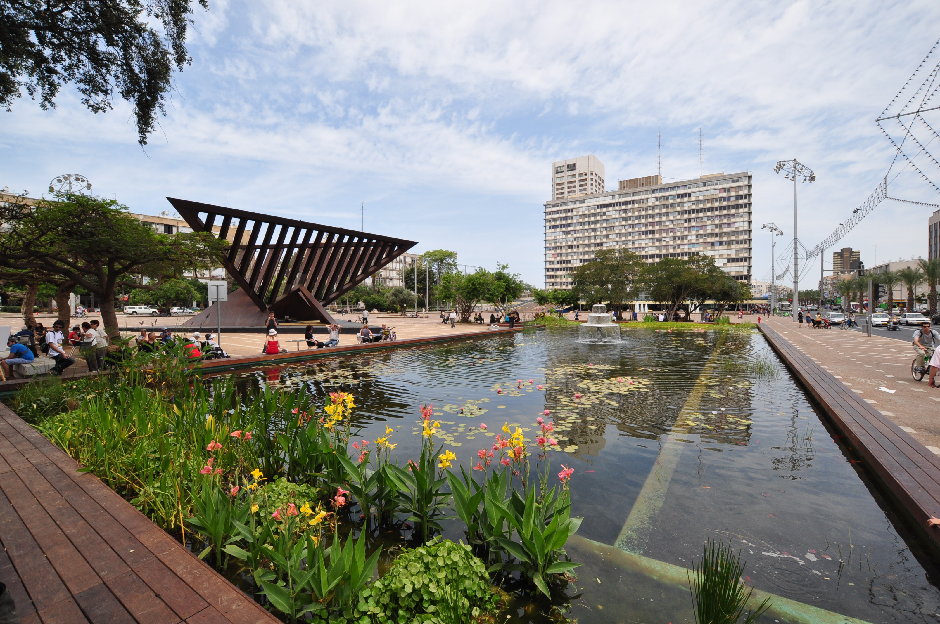 Rabin Square ecologic pool and Holocaust Memorial after renovation. In the back: Tel Aviv-Yafo City Hall.